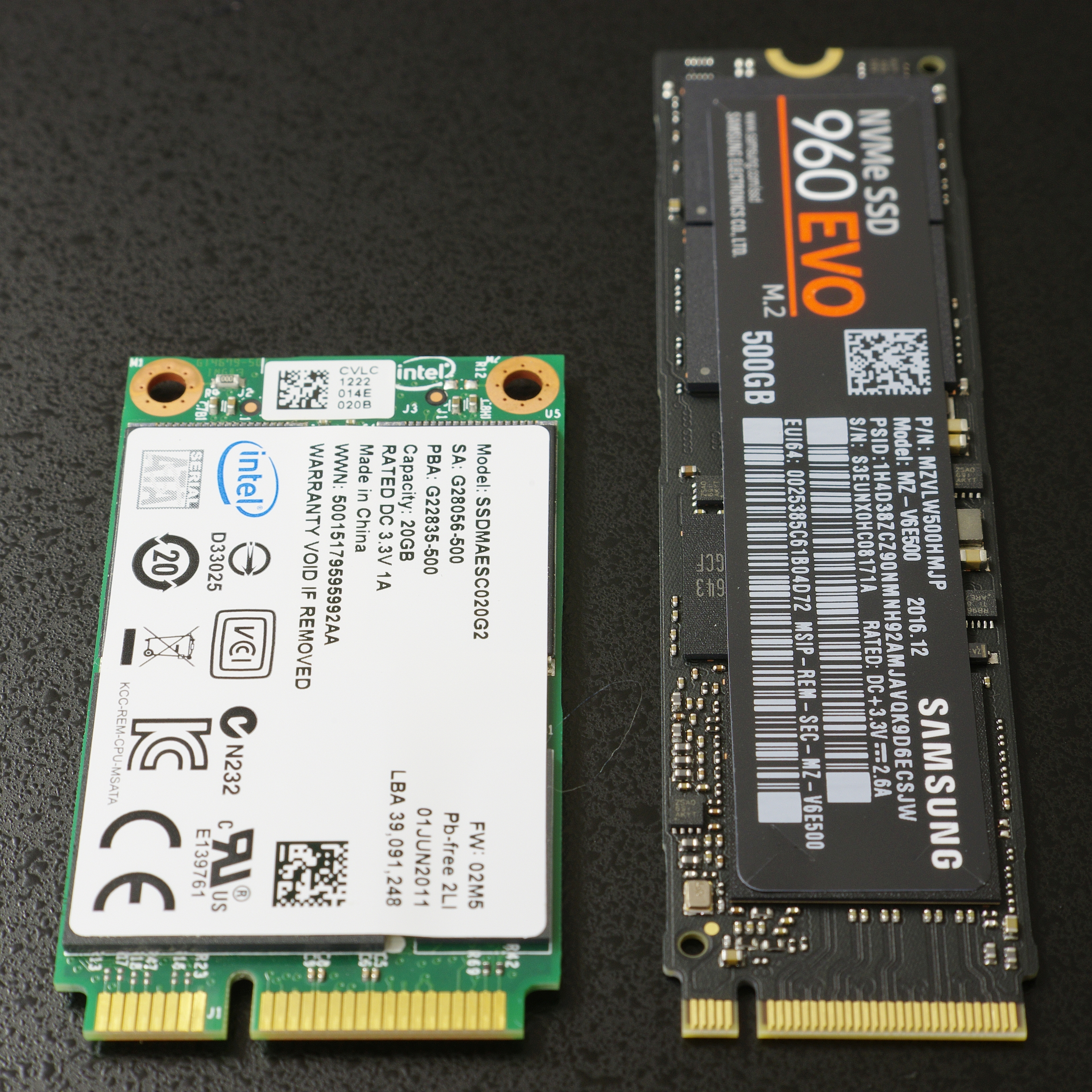 Two SSDs, left: mSATA (mini-SATA), right: M.2